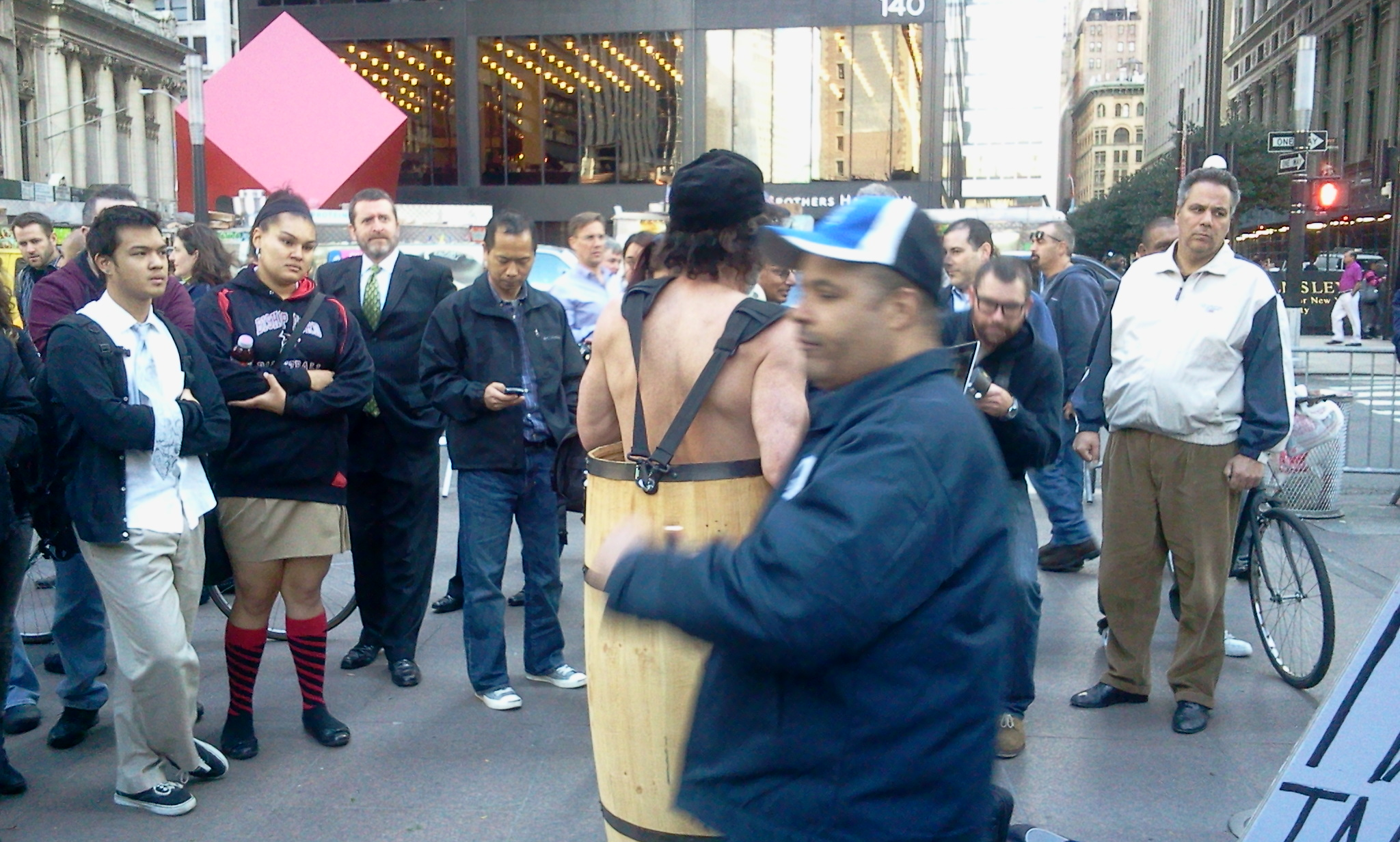 Occupy Wall Street_10-20-2011-0079. Man wearing barrel.